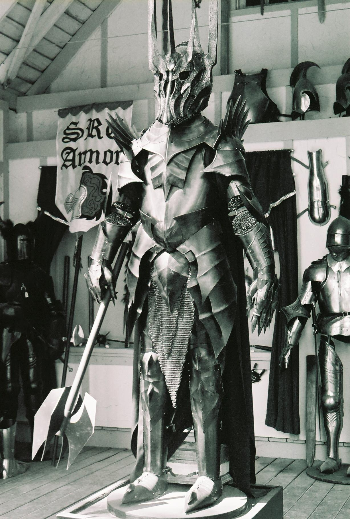 A statue of the Dark Lord from the Lord of the Rings movie. At the Renaissance Faire in 2005.